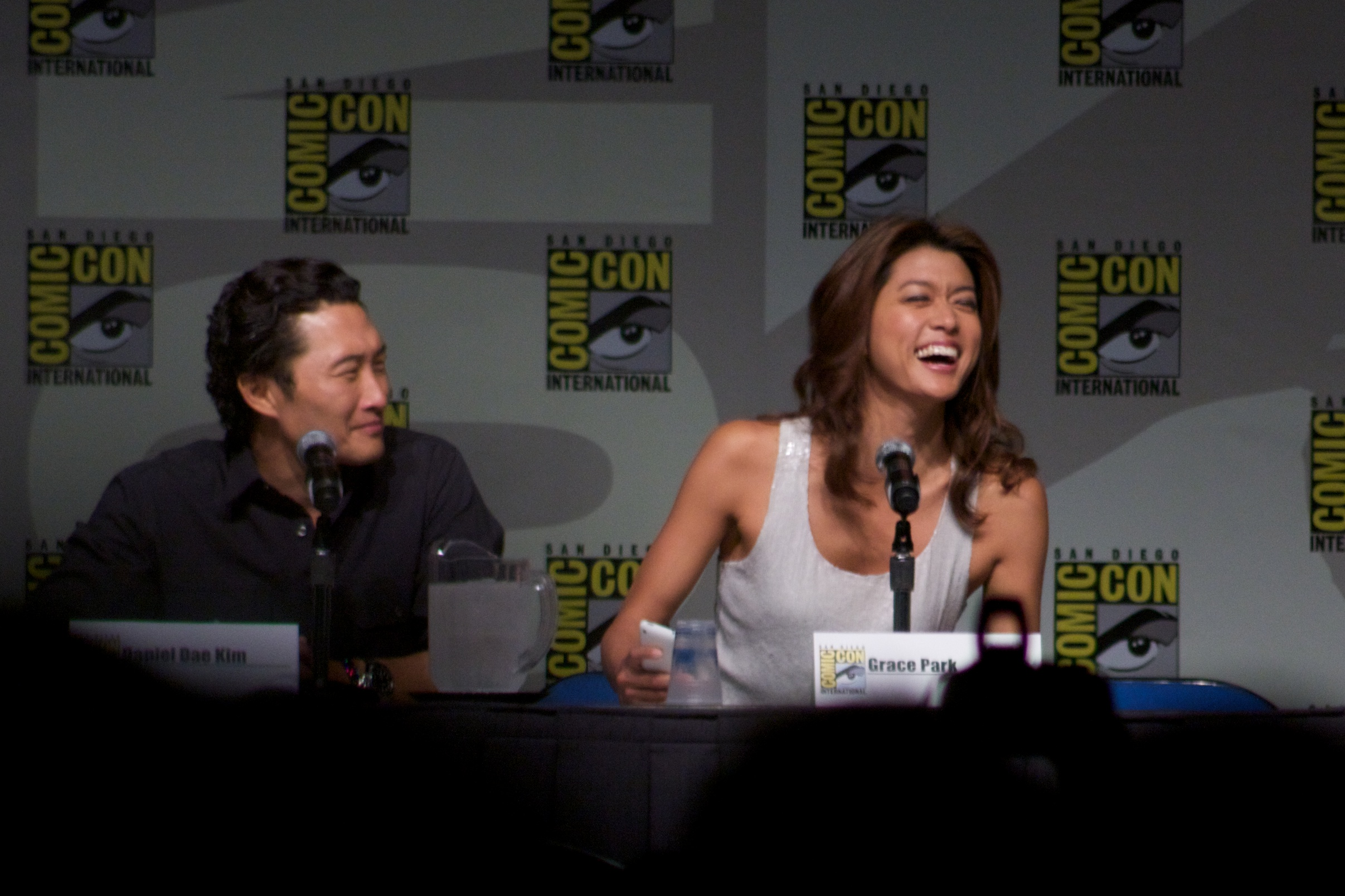 "Hawaii Five-0" Panel. Actors Daniel Dae Kim and Grace Park at San Diego 2010 Comic-Con International.